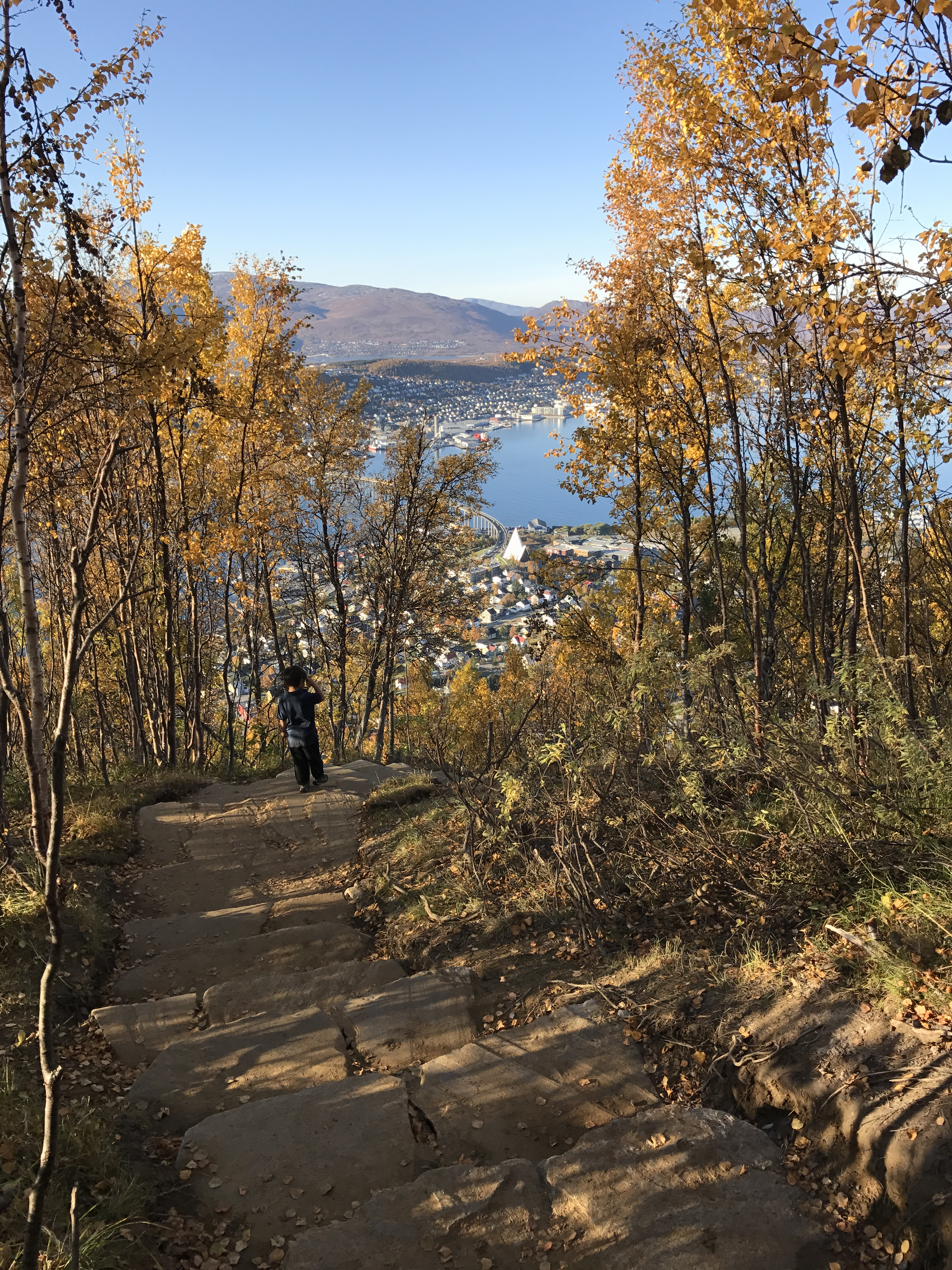 Store stairs on the mountain Aksla in Tromsdalen in Tromsø, Norway. The Arctic Cathedral can be seen in the background